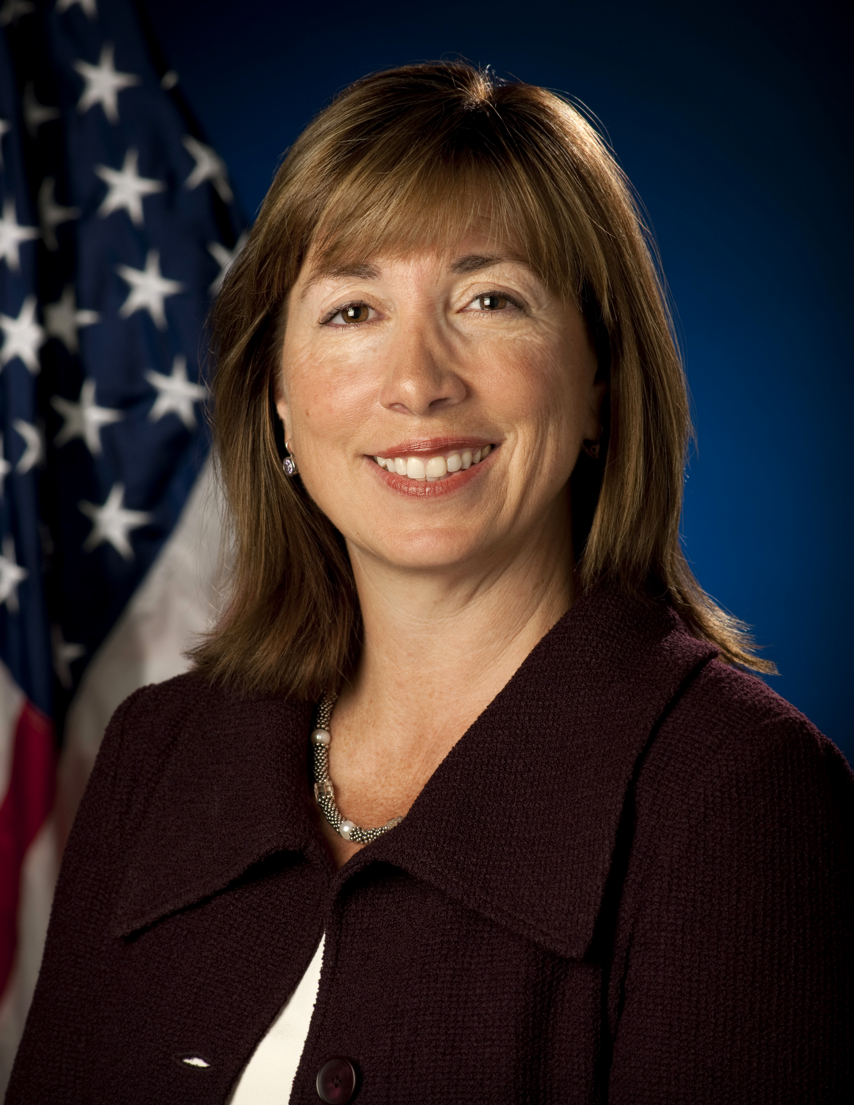 Official portrait of Deputy NASA Administrator Lori Garver.